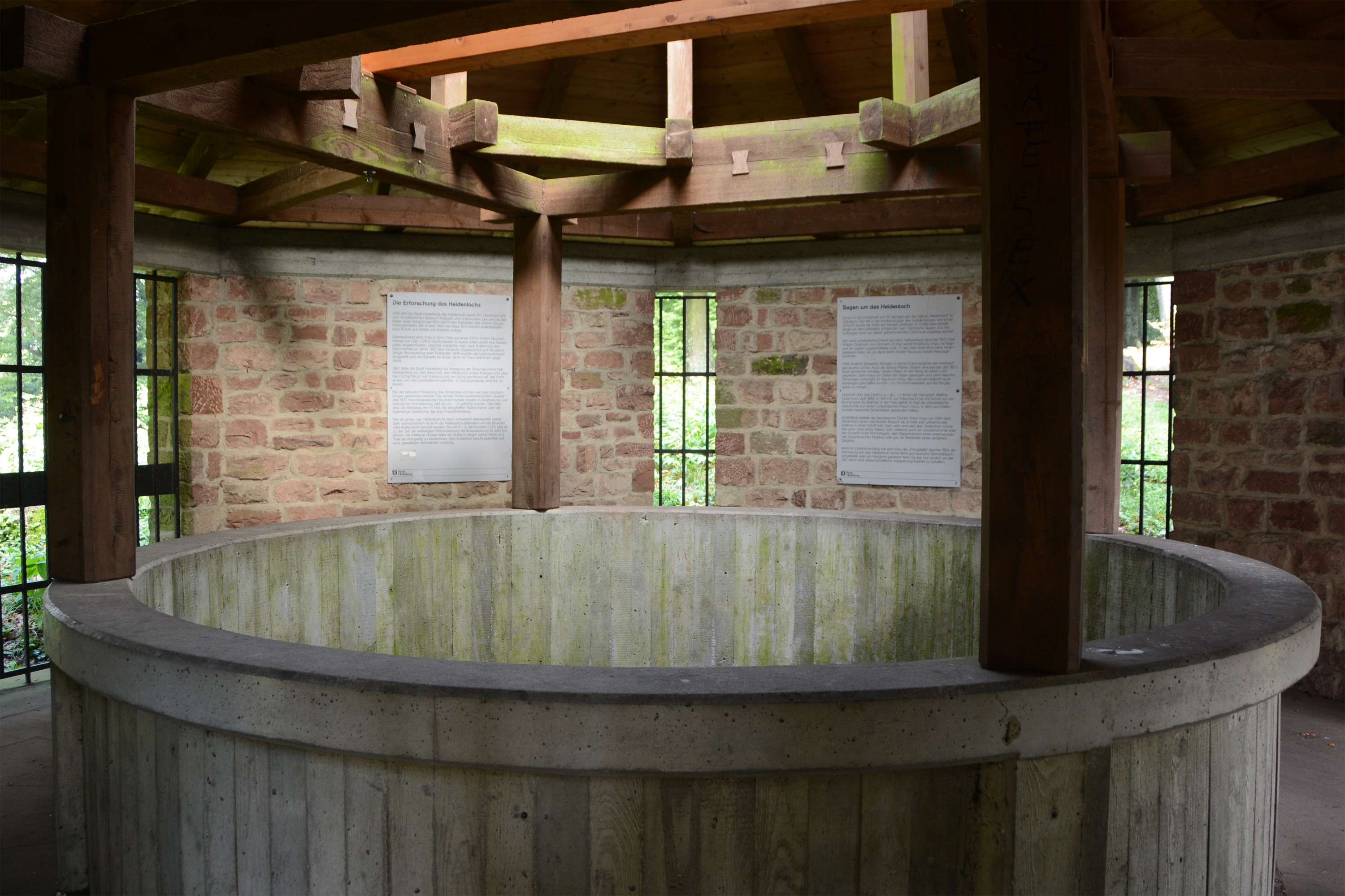 Heidenloch (Heidelberg) - frame of the medieval shaft, 55 meters deep